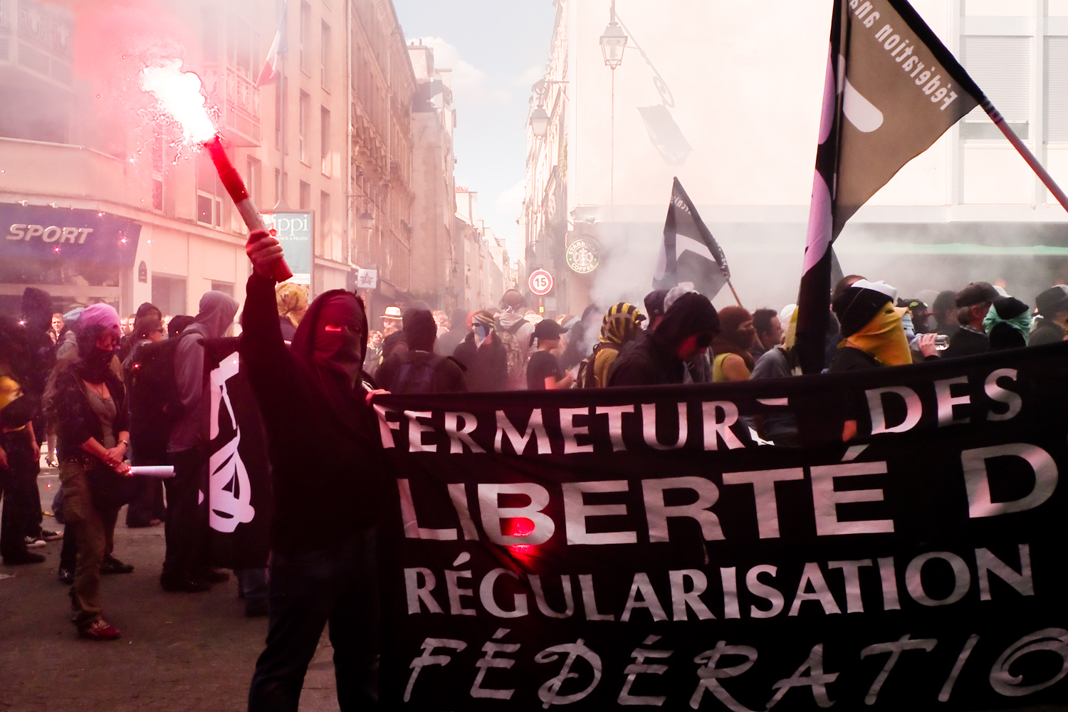 Manifestation contre la répression organisée le 21 juin 2009 à Paris.